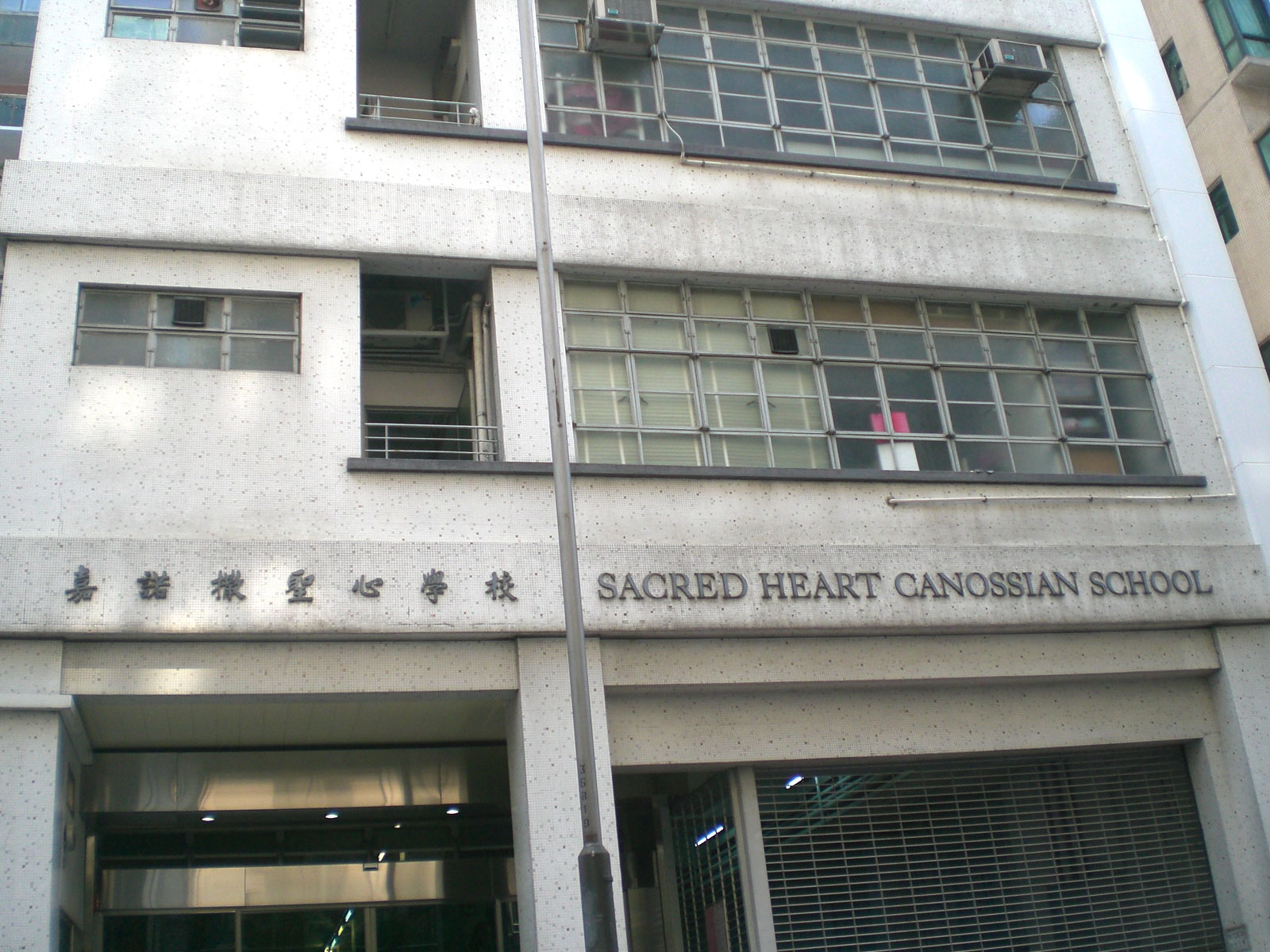 Author= DDMLL 嘉諾撒聖心學校, 堅道, Caine Road, Mid-levels, Central, Hong Kong